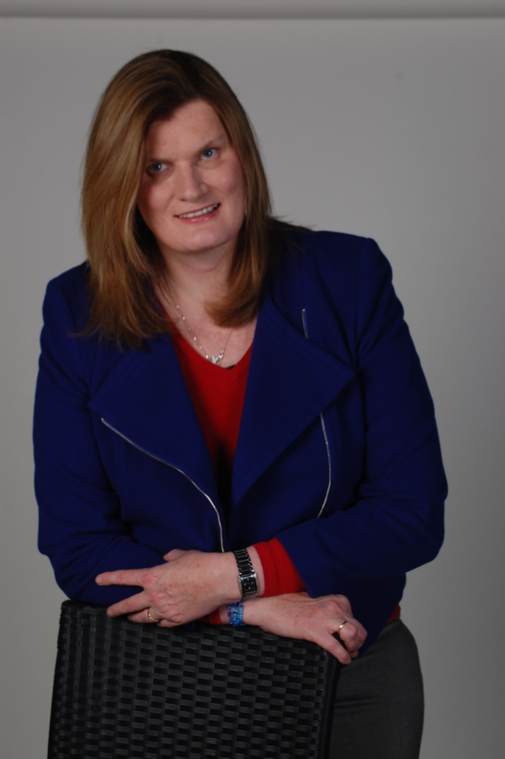 English MEP Nicole Sinclaire.